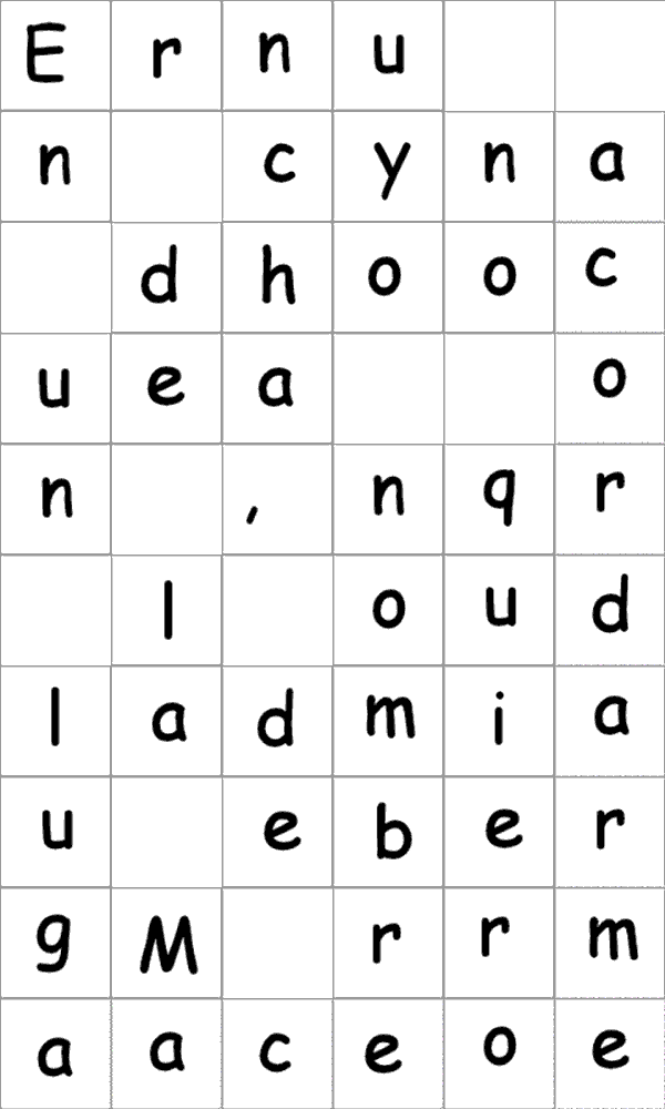 Example of: text distributed around one table with a pre-fixed width for explicate the transposition in cryptographic.